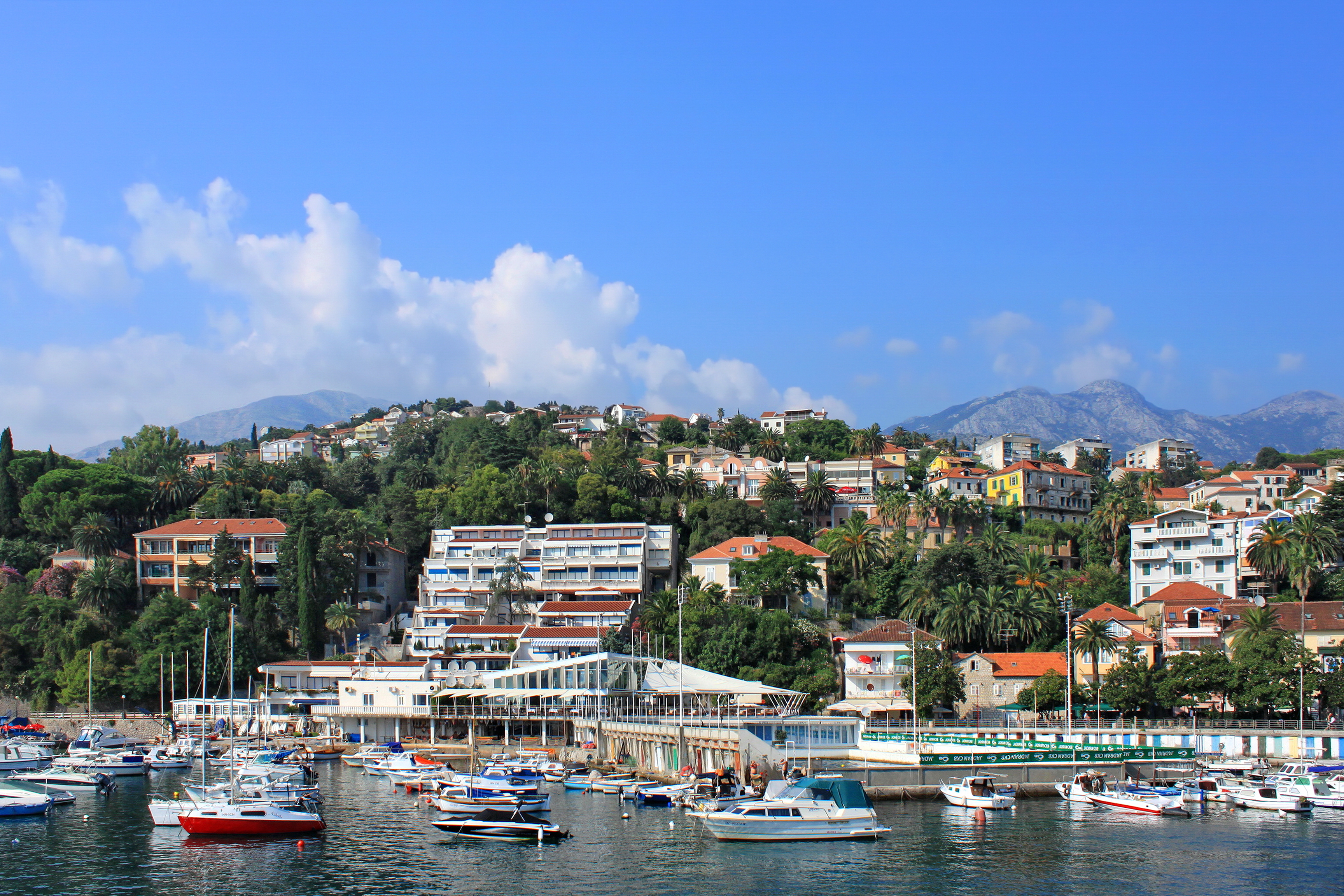 View of the city from the harbor. Herceg Novi, Montenegro.